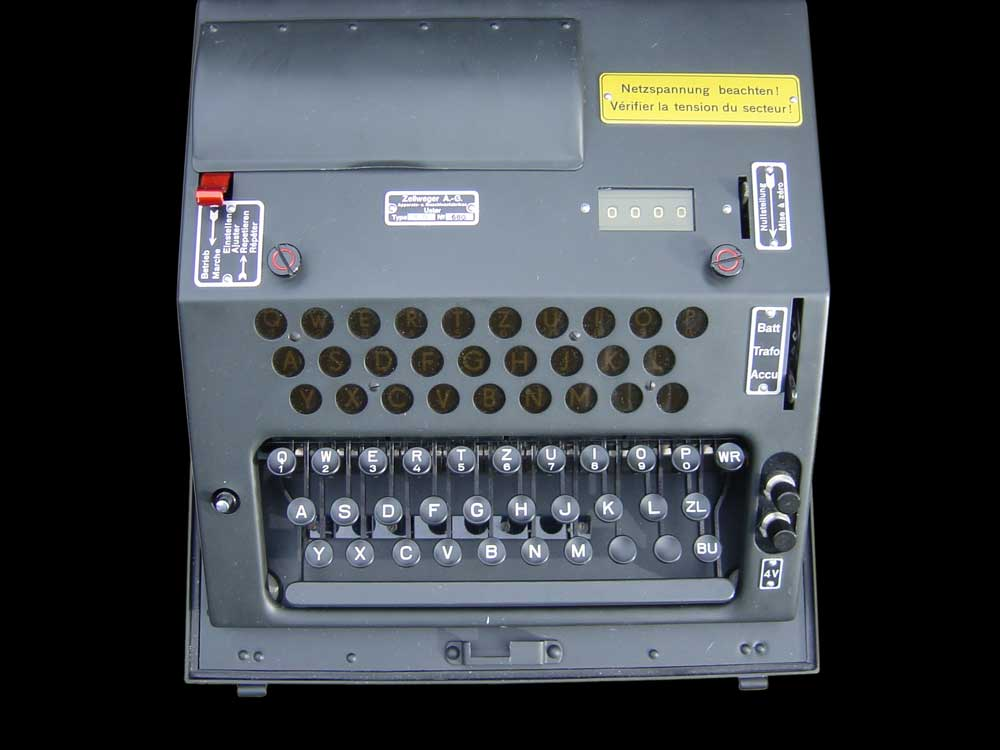 NEMA (machine). Photograph by Bob Lord, source: [1]. Author agreed to license this photograph under the terms of the GFDL after an email exchange with User:Matt Crypto.